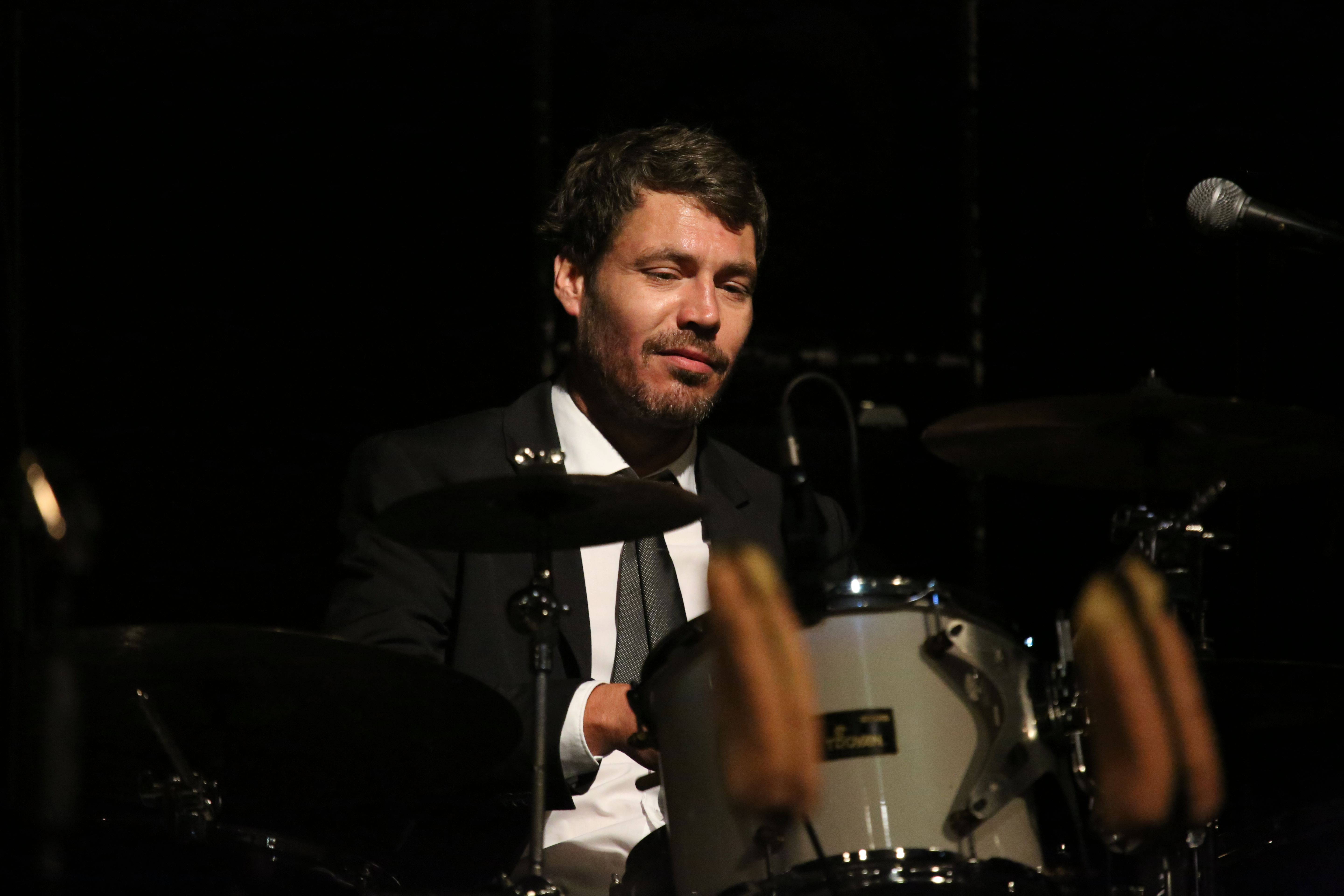 Martin Brauer, drummer of the Orchester der Versöhnung, at the ZMF 2014 in Freiburg, Germany